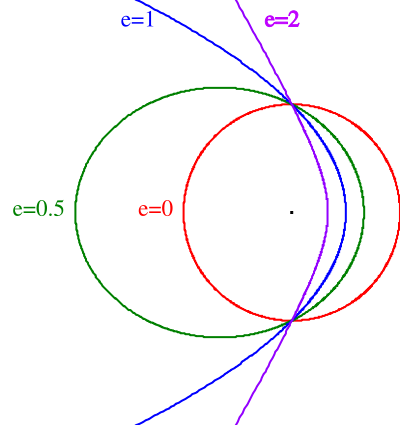 Examples of orbital trajectories with various eccentricities.